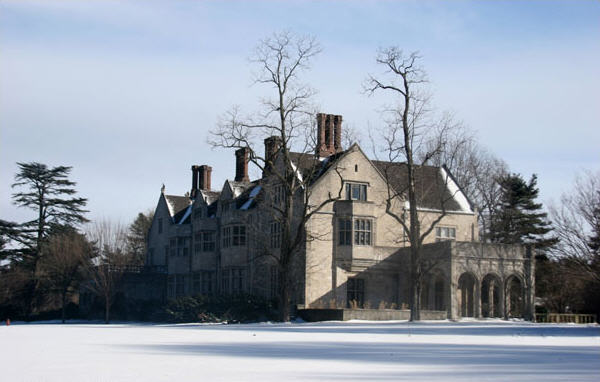 This image was made by Robert Swanson on January 15, 2006. Cropped slightly by Ali'i on 19:12, 13 March 2008 (UTC)